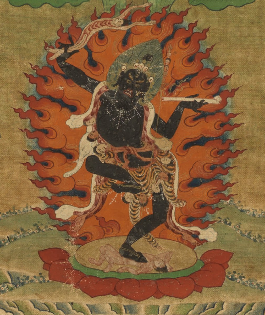 Tröma Nakmo (Tib. ཁྲོ་མ་ནག་མོ་, Wyl. khro ma nag mo, Eng. 'The Black Wrathful Mother'), Tibetan Buddhist Kali. Closeup from a painting of Machig Labdron , 19th century.